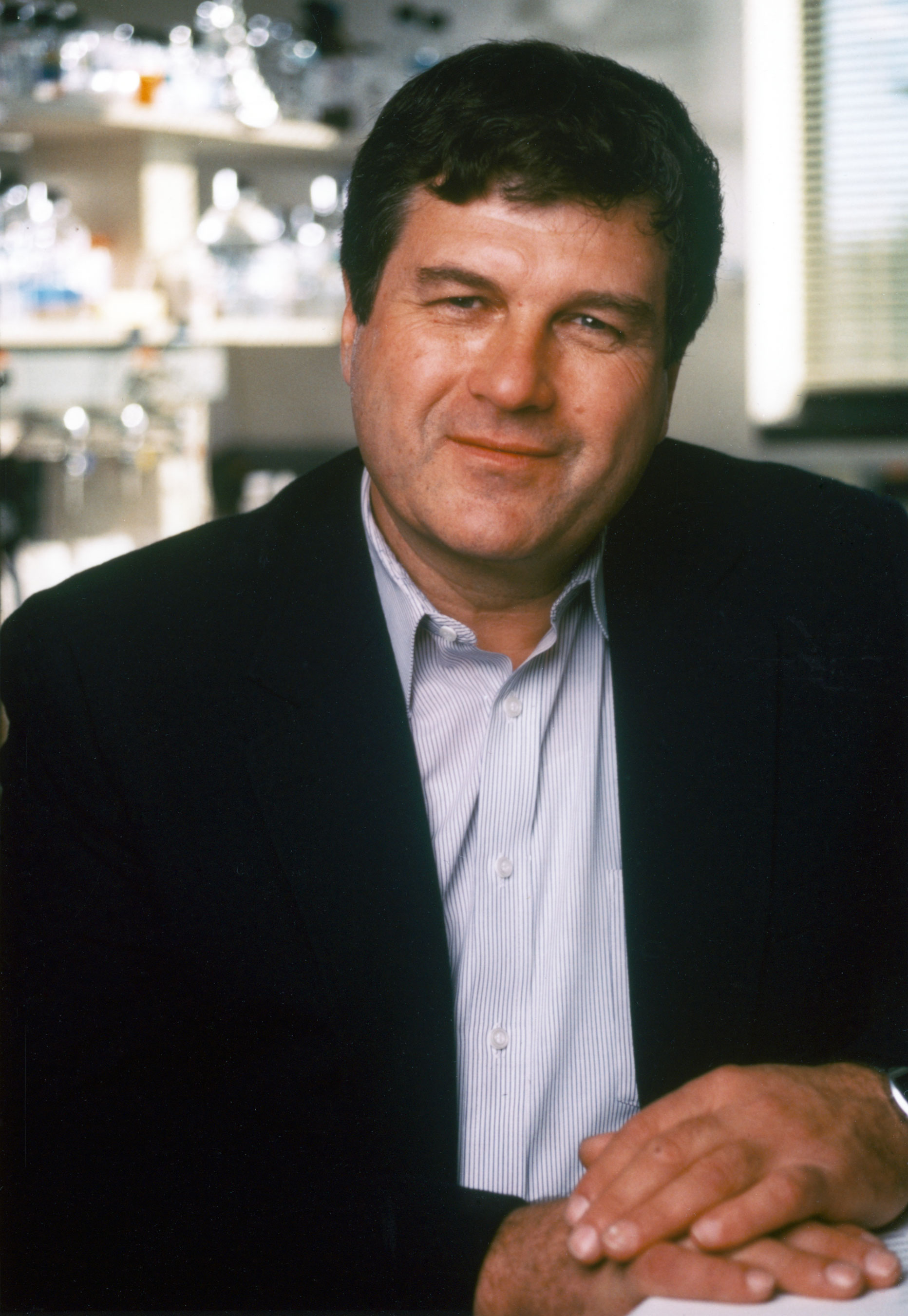 Title Van de Woude, George Description Dr. George Van de Woude, former Director, Basic Research Program, Frederick Cancer Research Facility, National Cancer Institute. Topics/Categories Historical, People National Cancer Institute, People Type Color, Photo Source National Cancer Institute